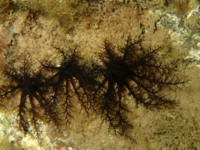 Thyone nigra Joshua & Creed, 1915 Country or area Australia Country code AU Decimal latitude -38.113963 Decimal longitude 144.675994 Geodetic datum WGS84 State province Victoria